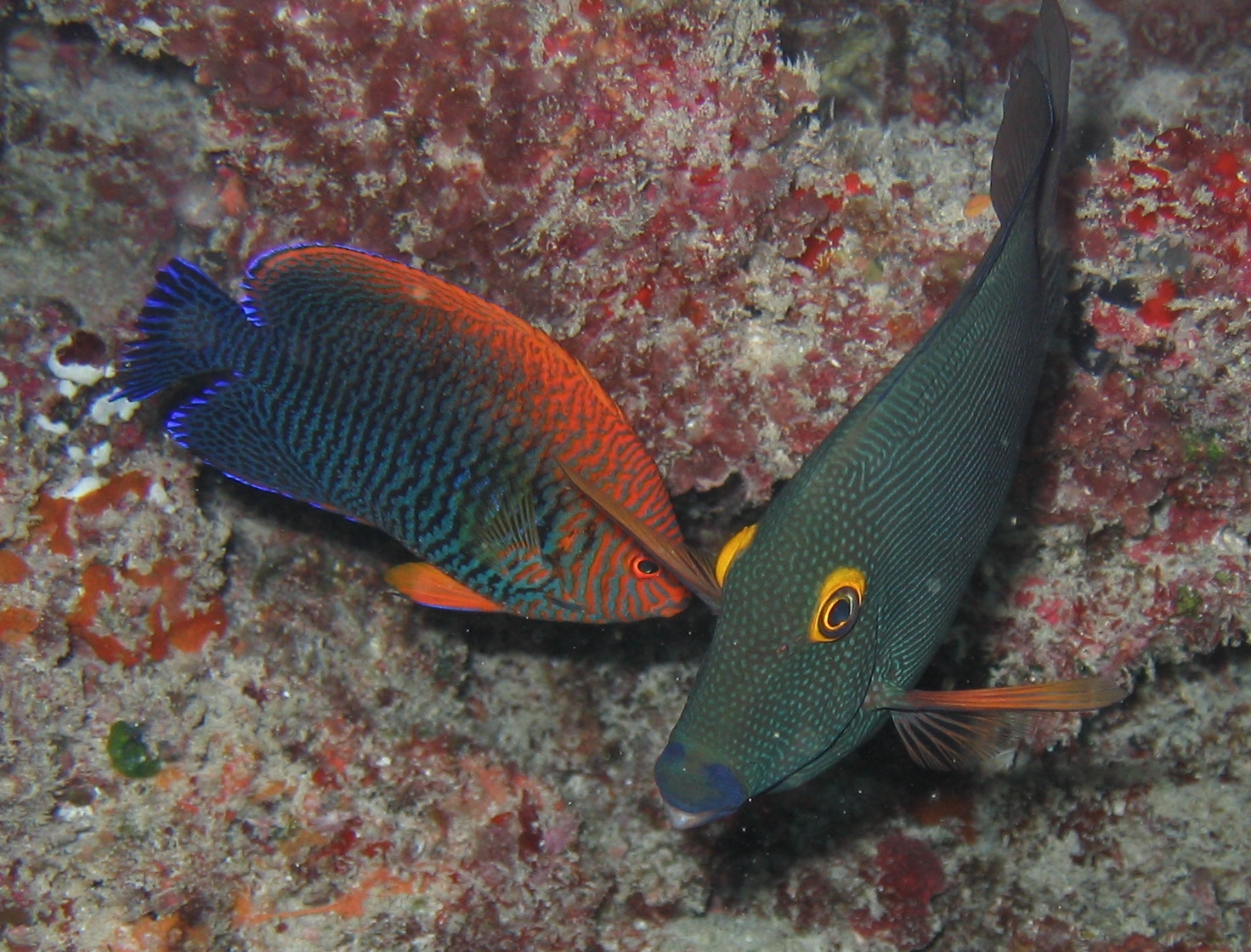 Potter's angelfish (Centropyge potteri) on the left and surgeonfish (Ctenochaetus strigosus). Hawaiian name for most types of surgeonfish is kole. Image ID: reef0609, NOAA's Coral Kingdom Collection Location: Northwest Hawaiian Islands